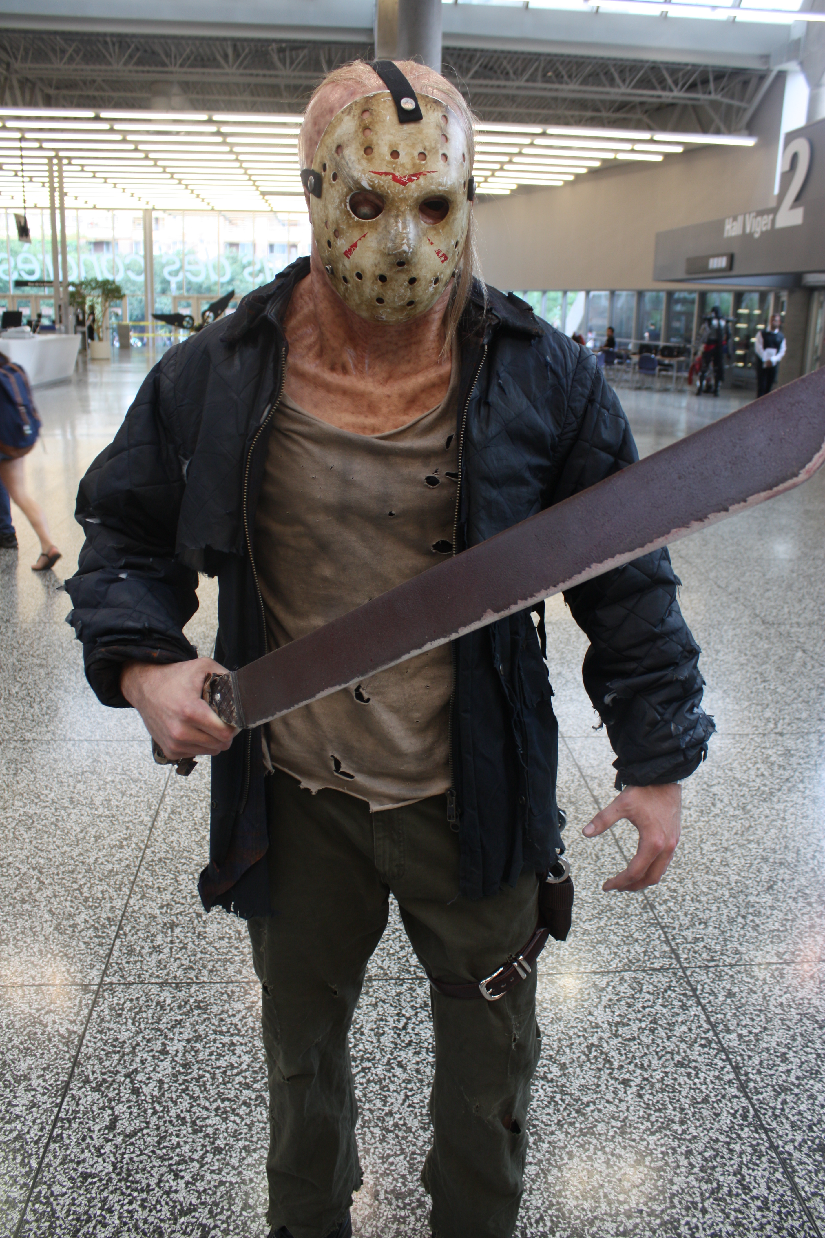 Cosplay one day two of Montreal Comiccon 2015.